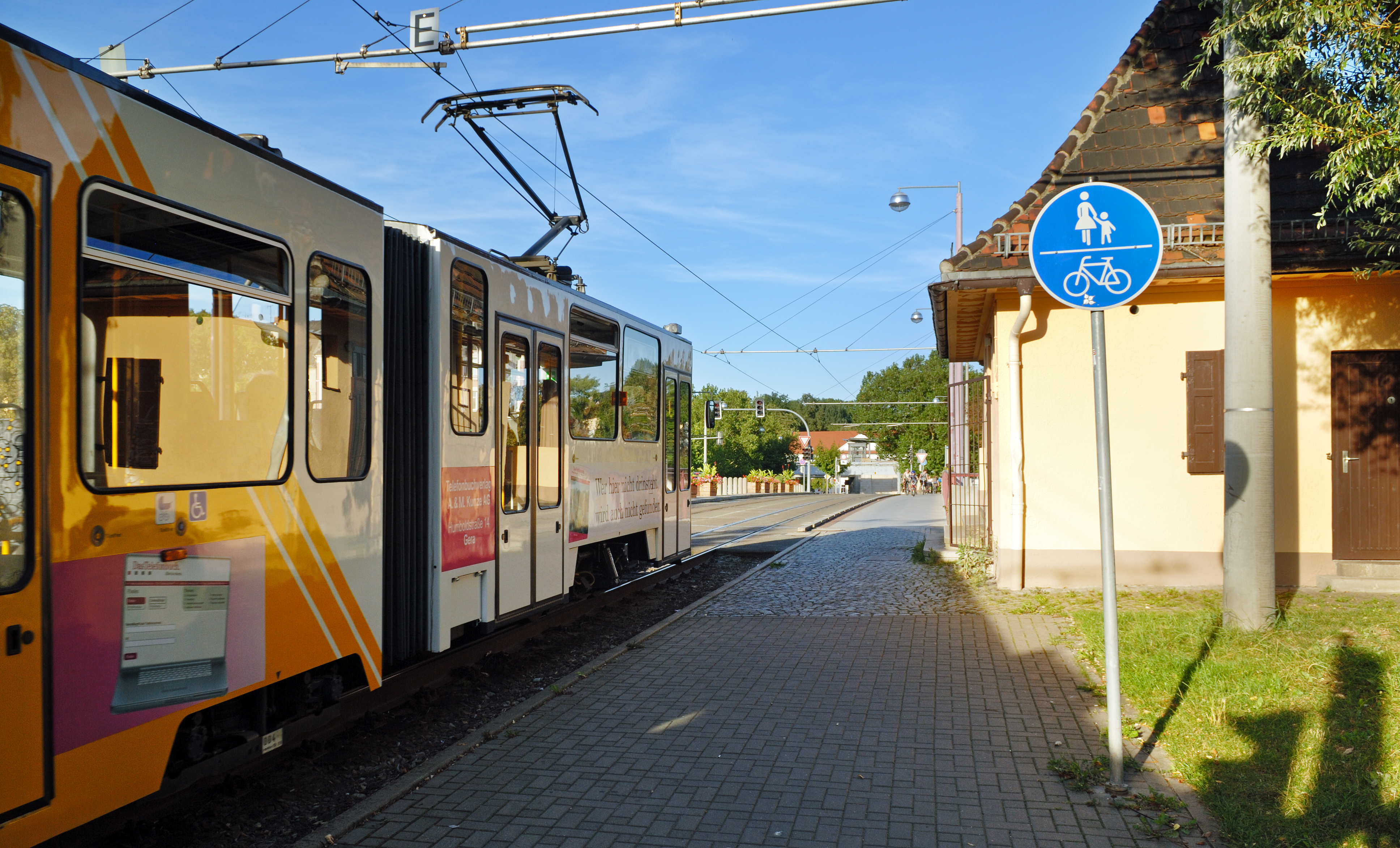 This image shows the Heinrichsbrücke ("Heinrich bridge") in Gera, Germany.